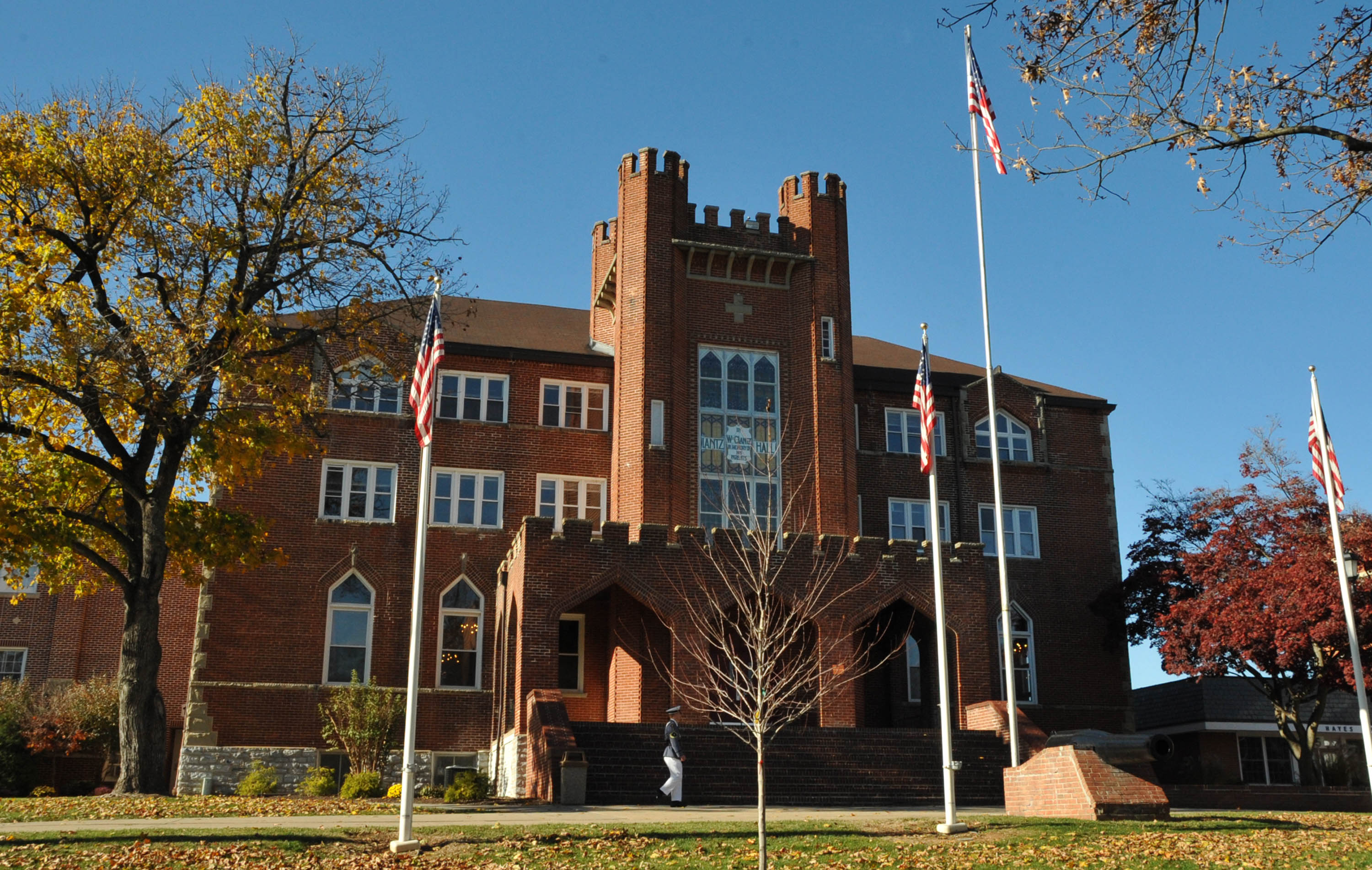 HALL IS IN MASSANUTTEN MILITARY ACADEMY FOUNDED IN 1899; LANTZ HALL WAS BUILT IN 1907-1909, AND IS A 3 1/2-STORY, SEVEN BAY BY THREE BAY, BRICK FACED FRAME BUILDING IN THE LATE GOTHIC REVIVAL STYLE.